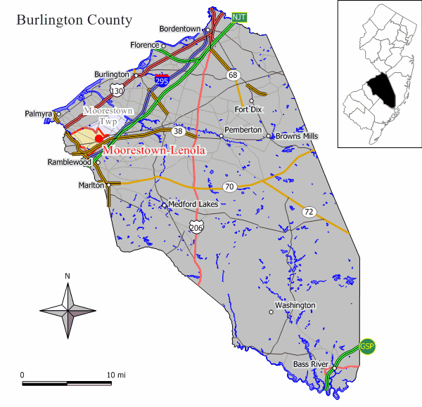 Source: Jim Irwin Original work by Jim Irwin, December 2005.